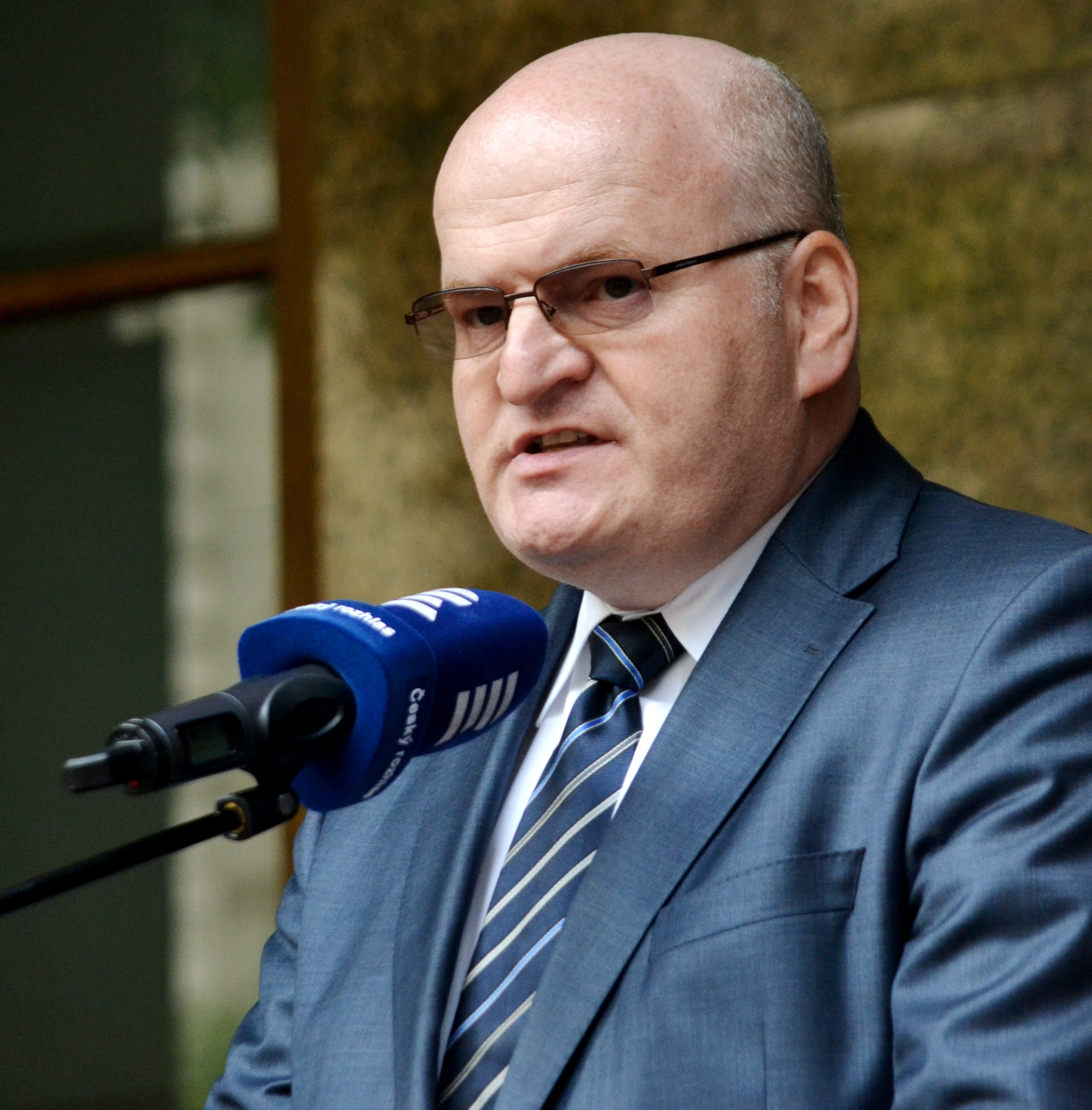 Daniel Herman, Minister of Culture of the Government of the Czech Rep.